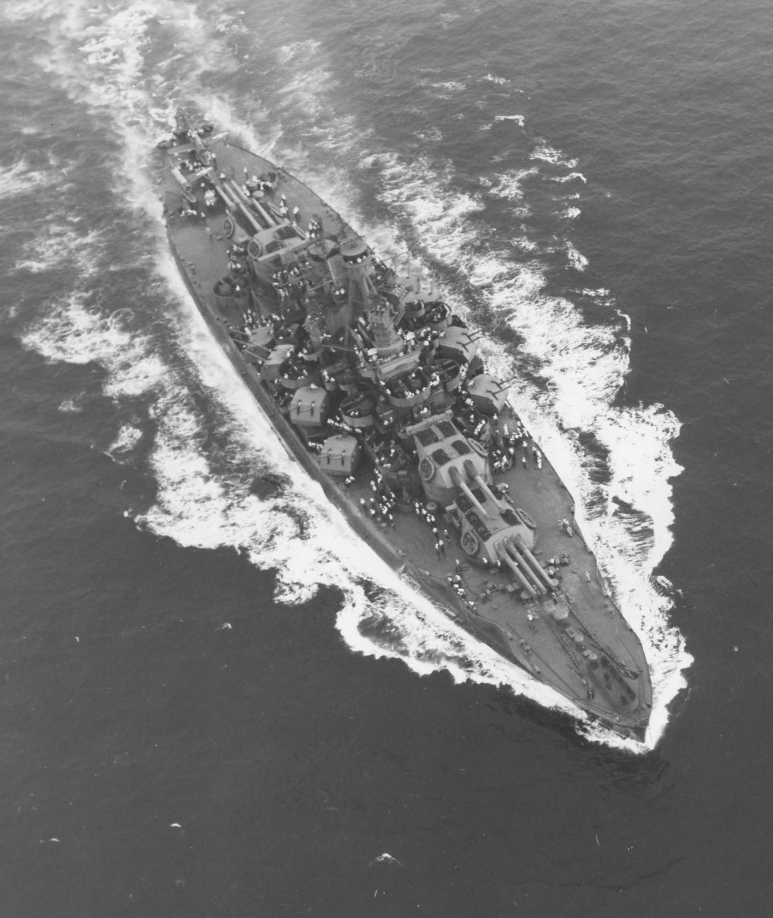 Ariel view of USS Nevada (BB-36), undated but following her 1942 modernization.